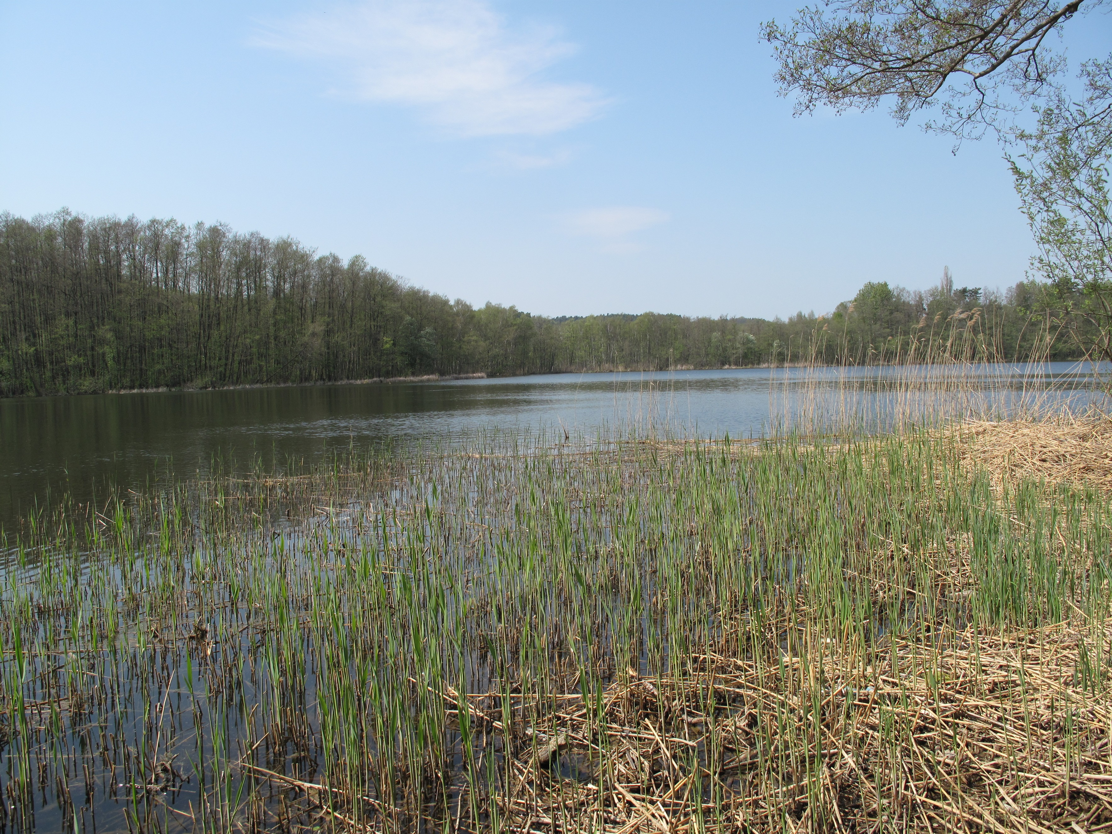 View of the southeastern shore of the Weiße See to northwest. The Weißer See (german for: white lake) is a lake in Buckow, District Märkisch-Oderland, Brandenburg, Germany. The lake covers 5,8 hectare and has a depth of max. 3,5 meters. Separated by a small land spit the lake borders to the southeastern bay of the Schermützelsee. The lake is situated in the hill country „Märkische Schweiz“ and in the Märkische Schweiz Nature Park.